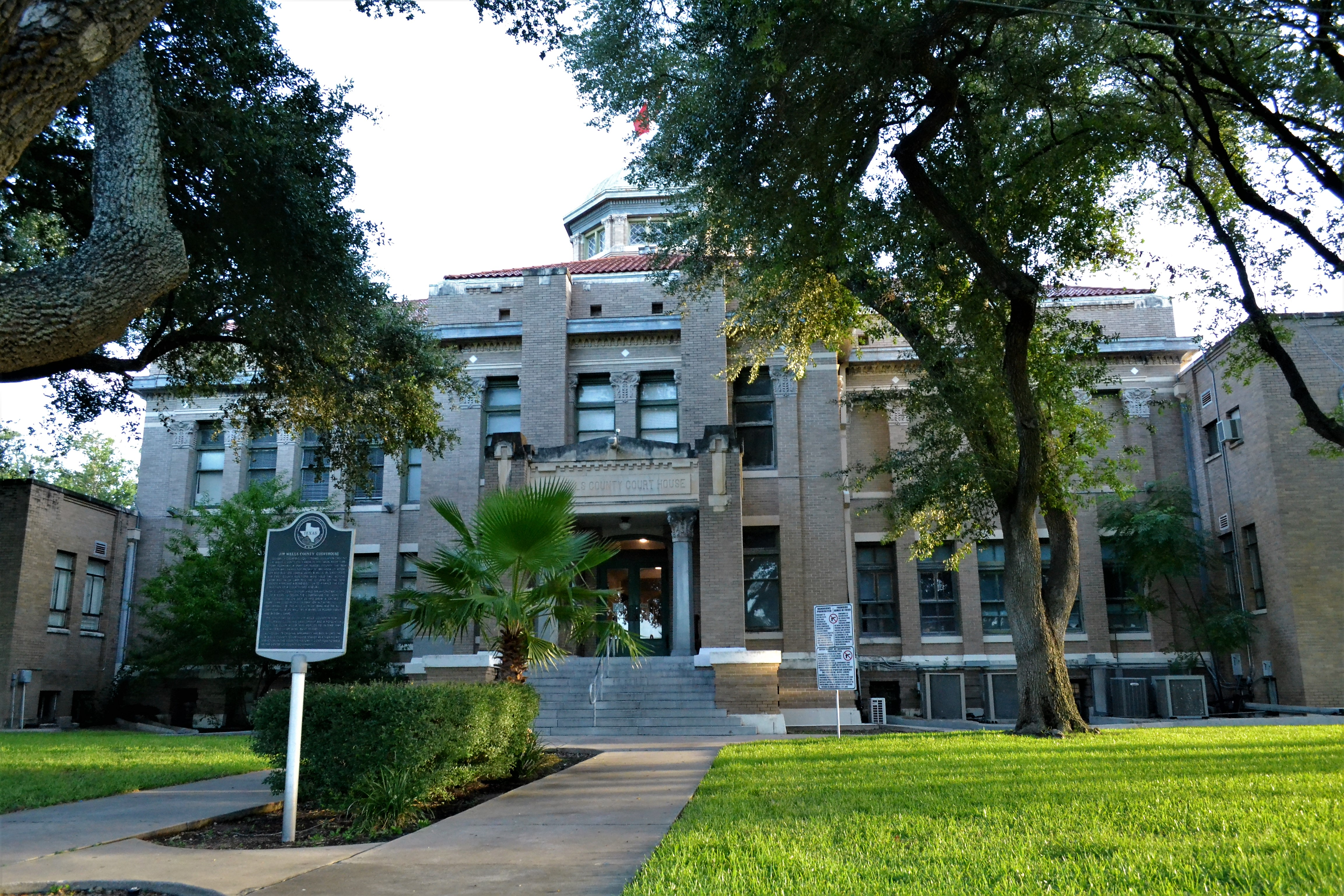 The Jim Wells County Courthouse in Alice, Texas.